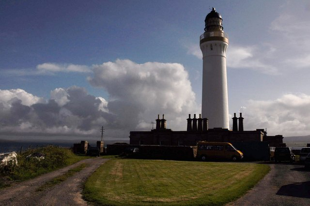 Hoy High Lighthouse, Graemsay. Hoy High Lighthouse on the Island of Graemsay, in the Orkney Islands.